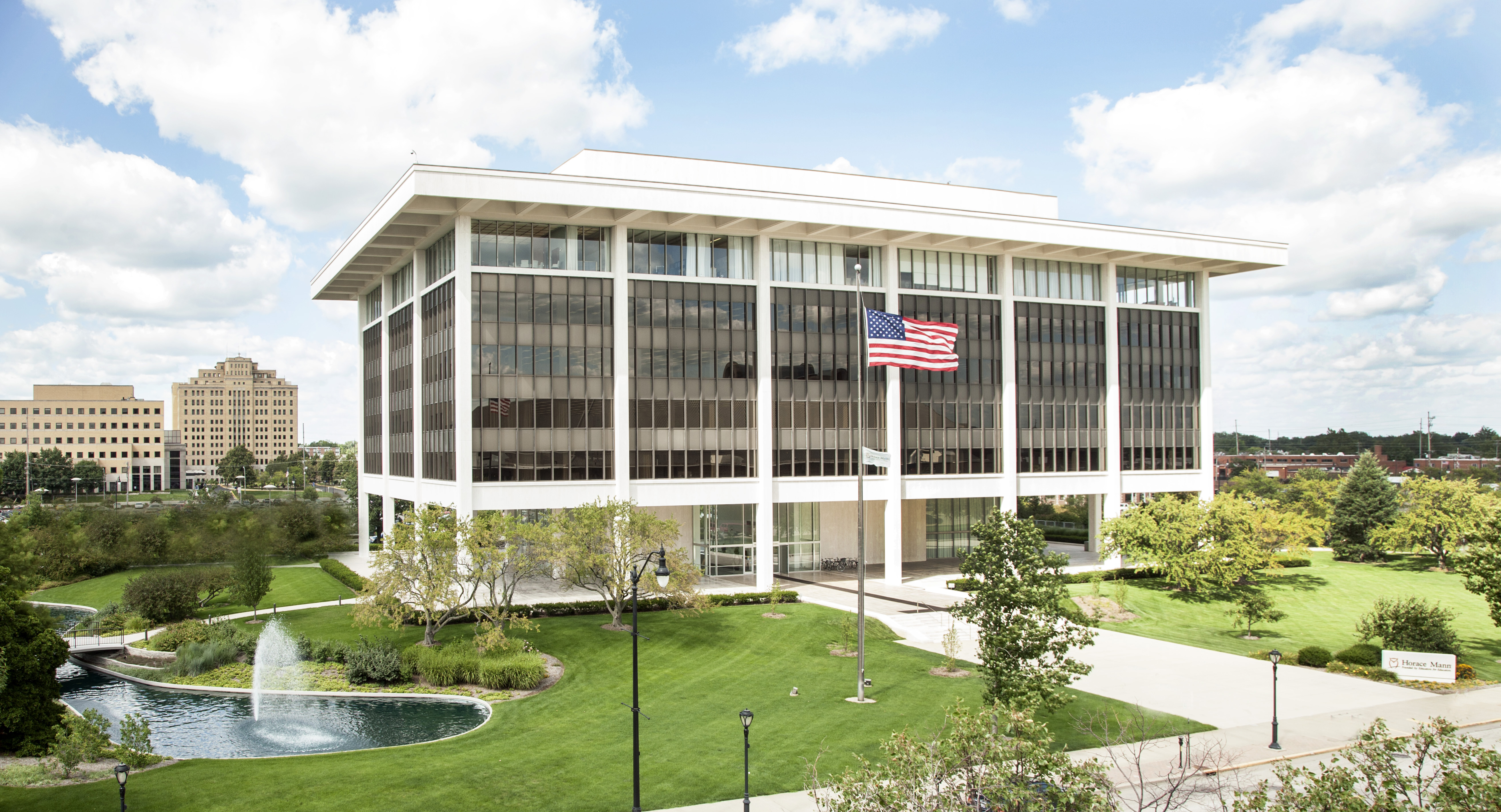 External photo of Horace Mann building in Springfield, Illinois designed by Minoru Yamasaki.